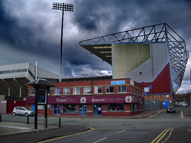 The Jimmy Mcllroy Stand, Turf Moor, Burnley FC